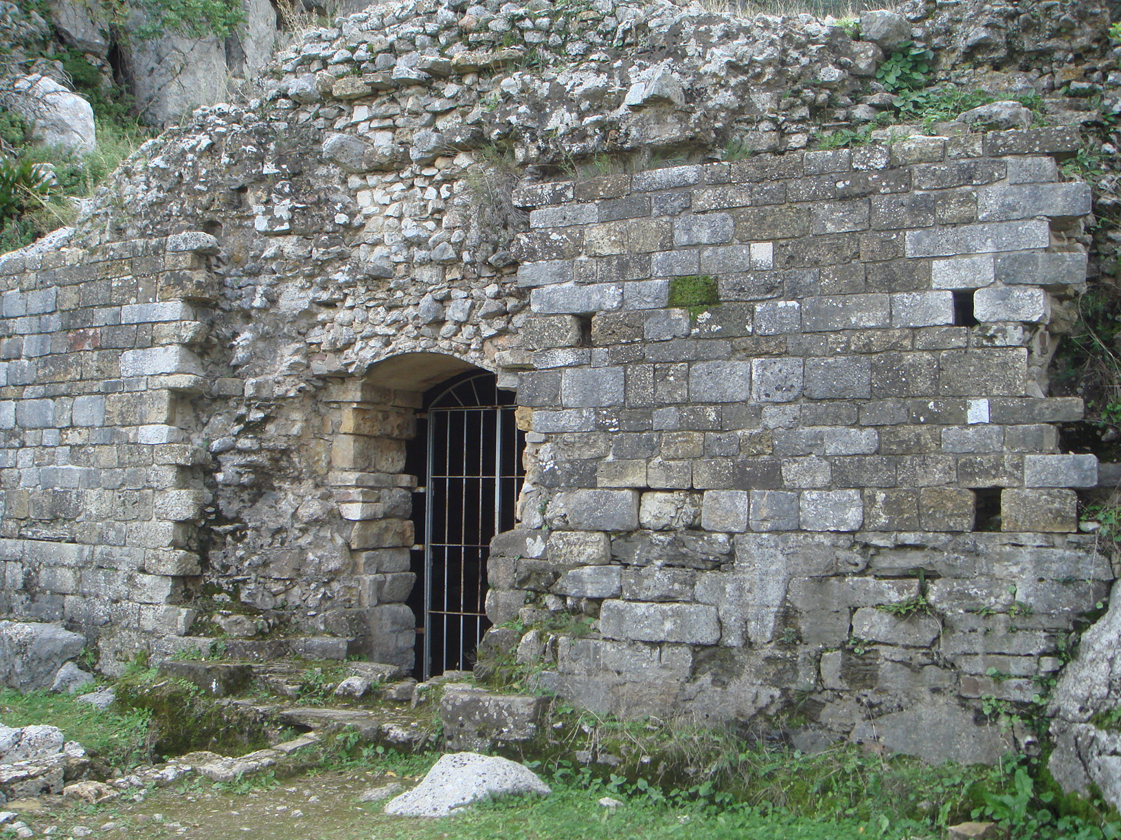 Columbarium of ancient roman Ocuri at Ubrique, (Cádiz) Spain.